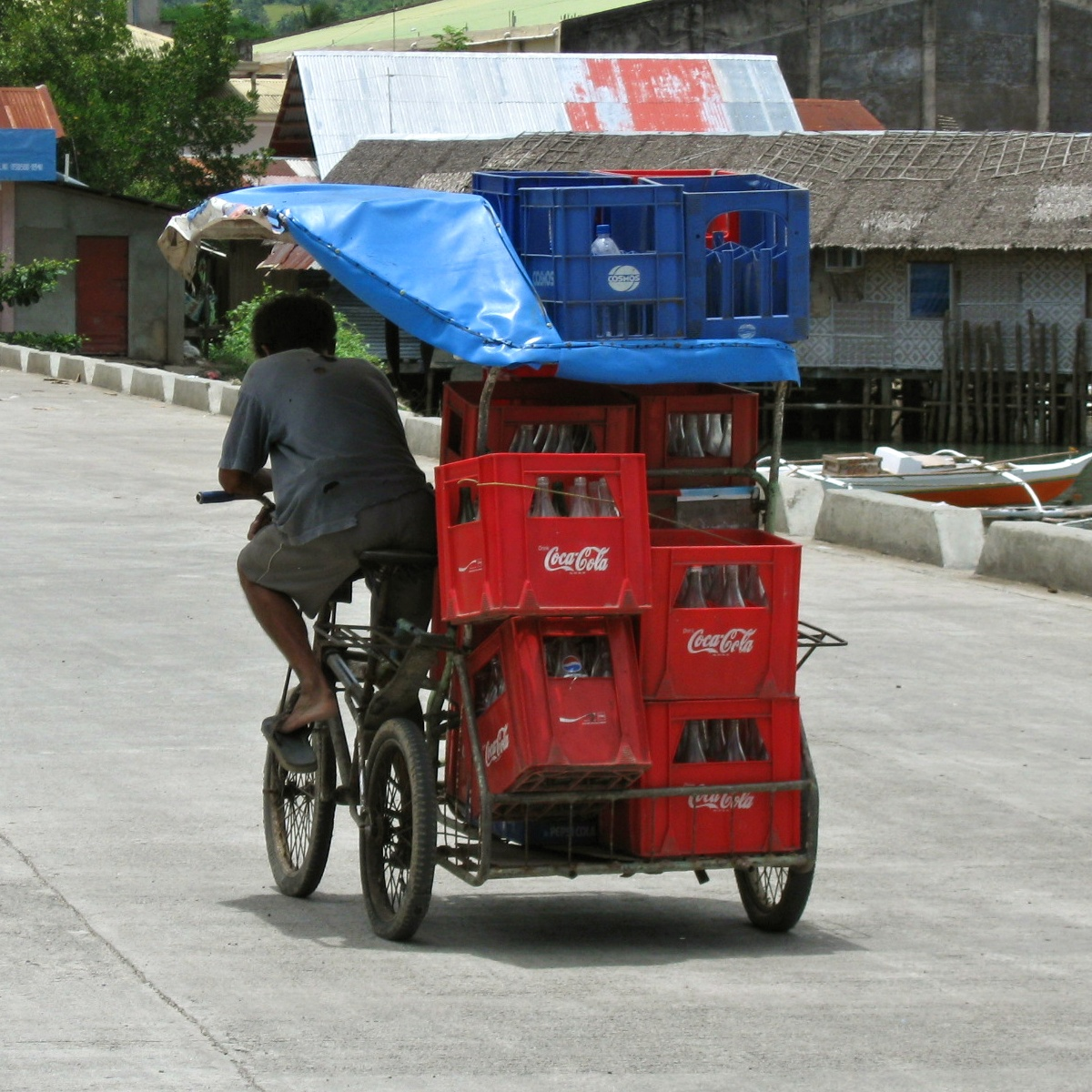 Tricycle, Tubigon, Bohol, Philippines